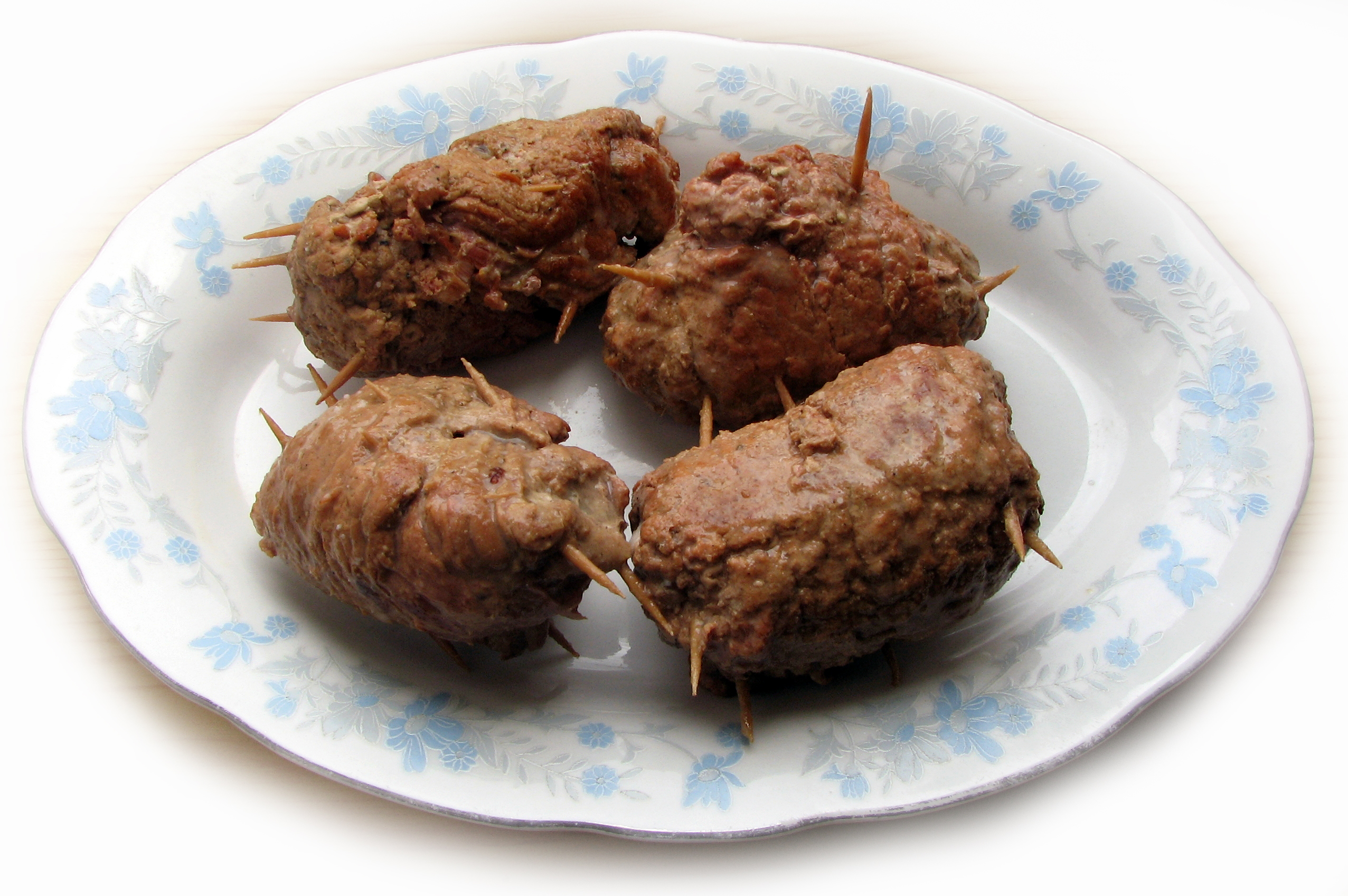 Polish cuisine, rolady